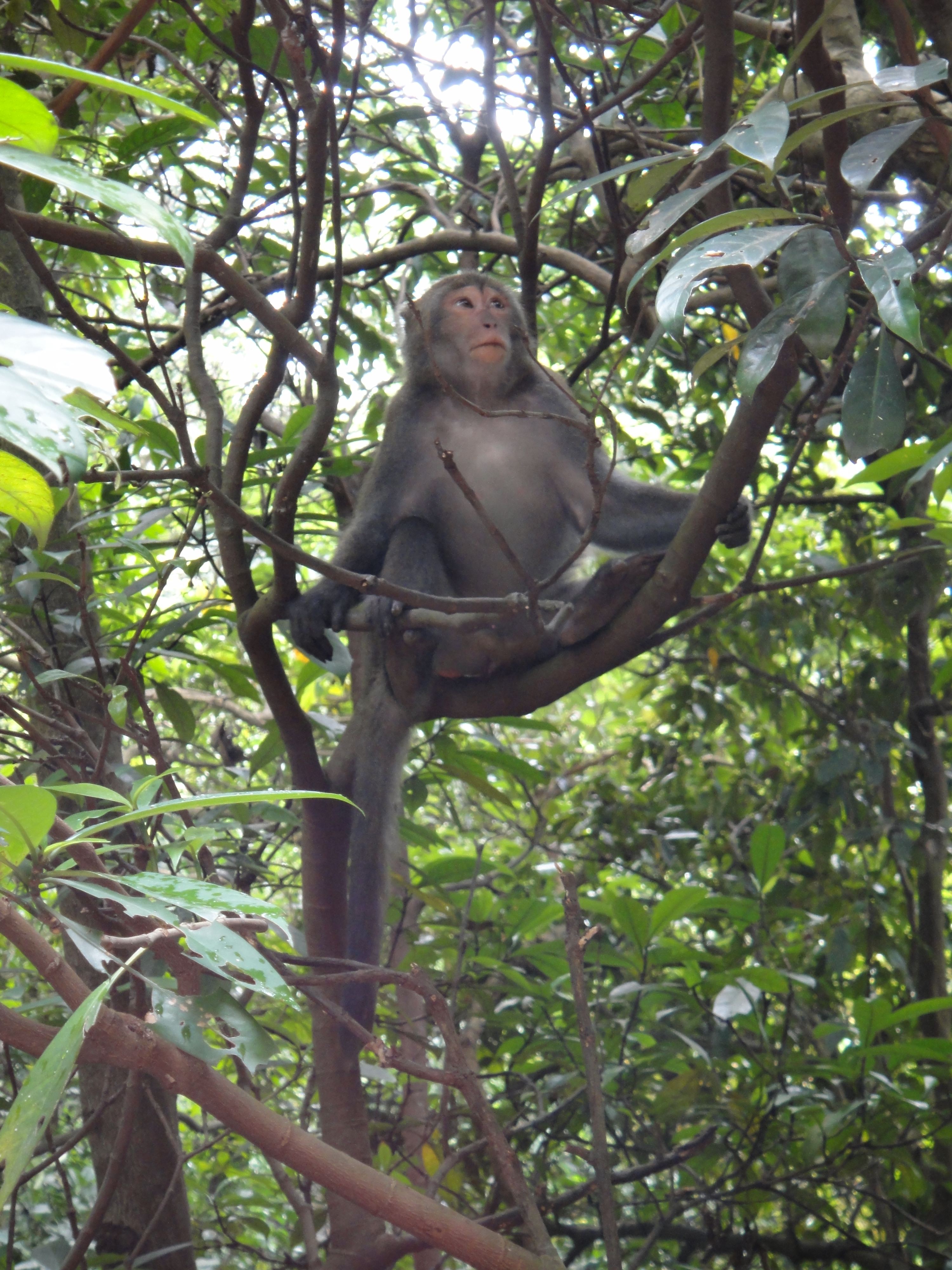 Formosan macaque in Tianmu Waterpipe Walkroad